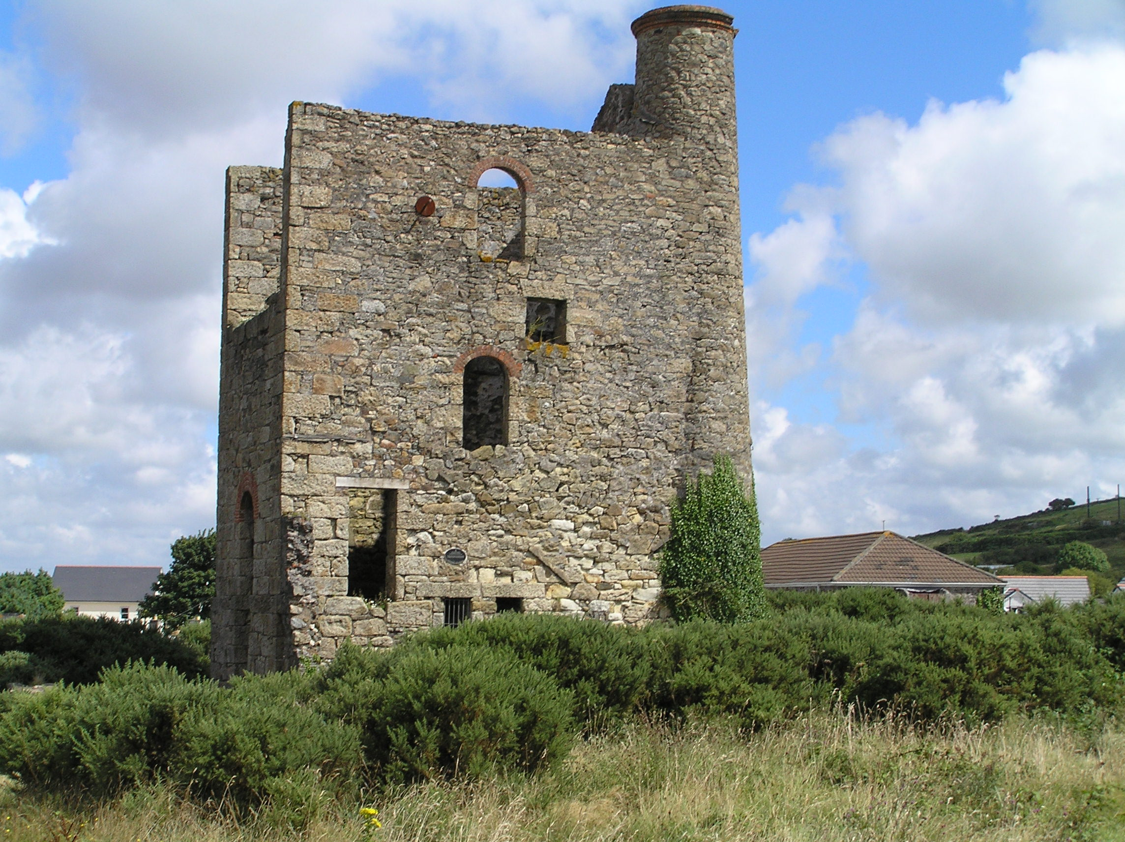 Photo taken by Will Wallis webmaster at Cornwall in Focus